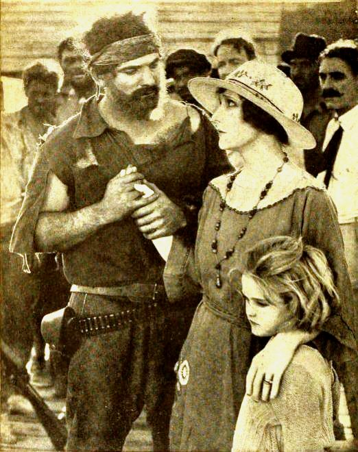 Still from the American silent film Under Crimson Skies (1920) with Elmo Lincoln, Mabel Ballin, and Nancy Caswell on page 72 of the February 1920 Motion Picture Magazine.